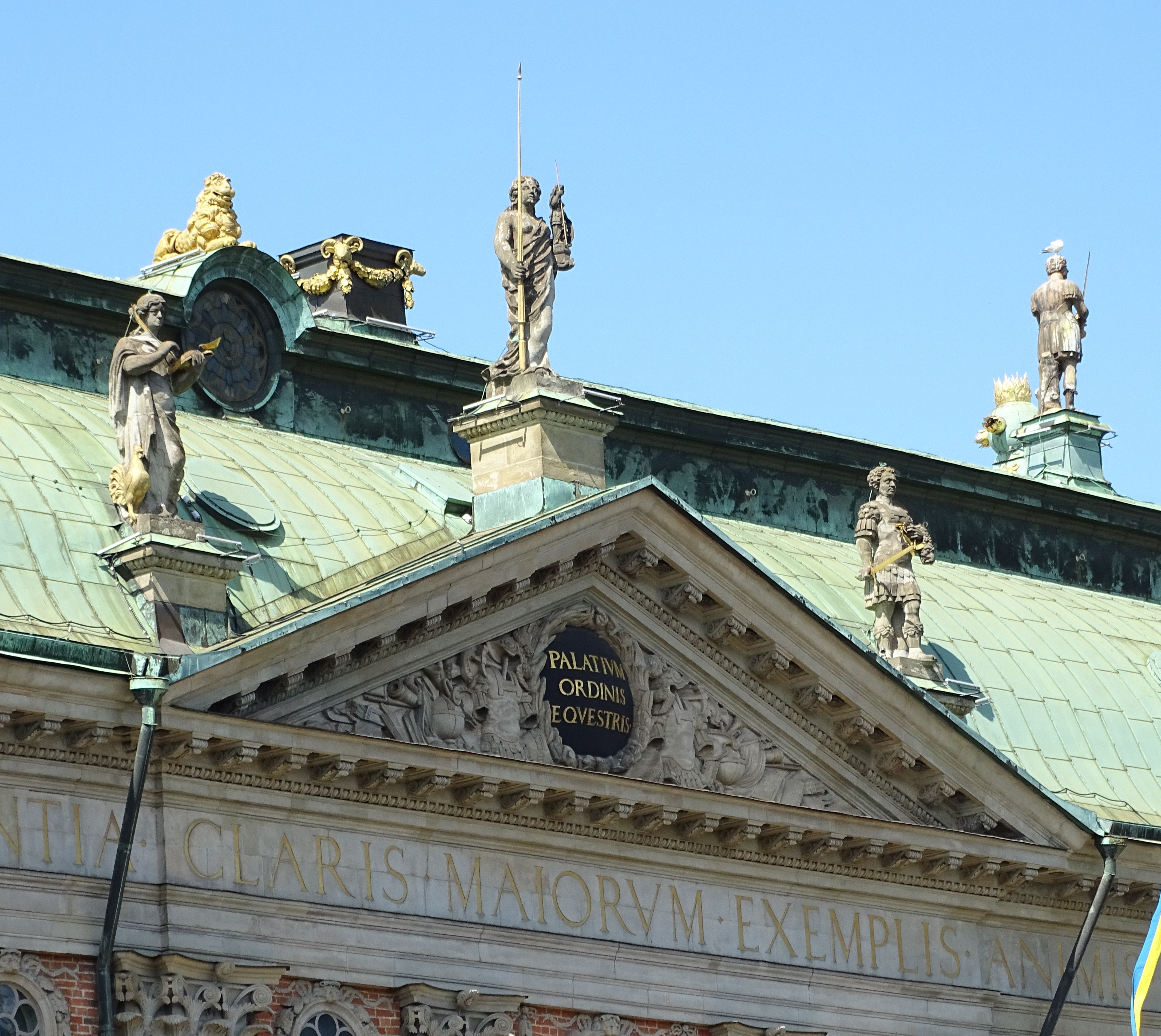 Riddarhuset, Stockholm, Sweden.